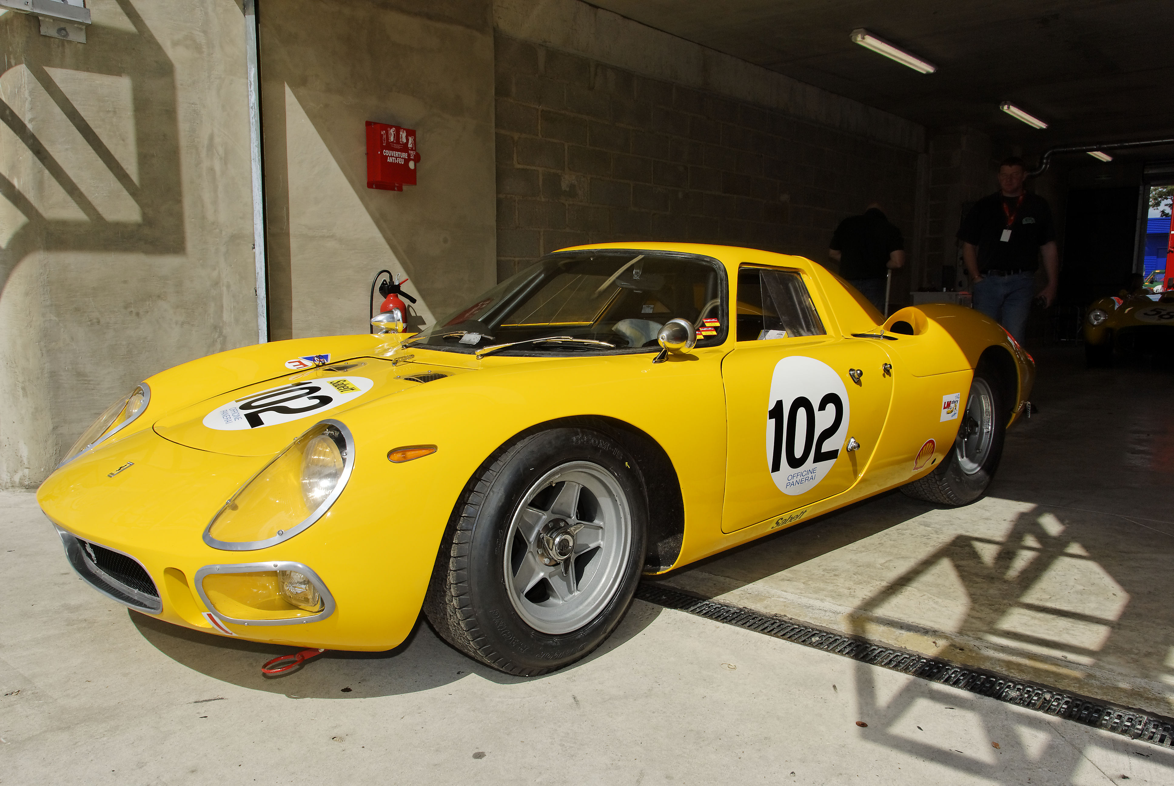 1965 Ferrari 250 LM s/n 6313 – at LM Story at Bugatti Circuit in Le Mans on 6 July 2007